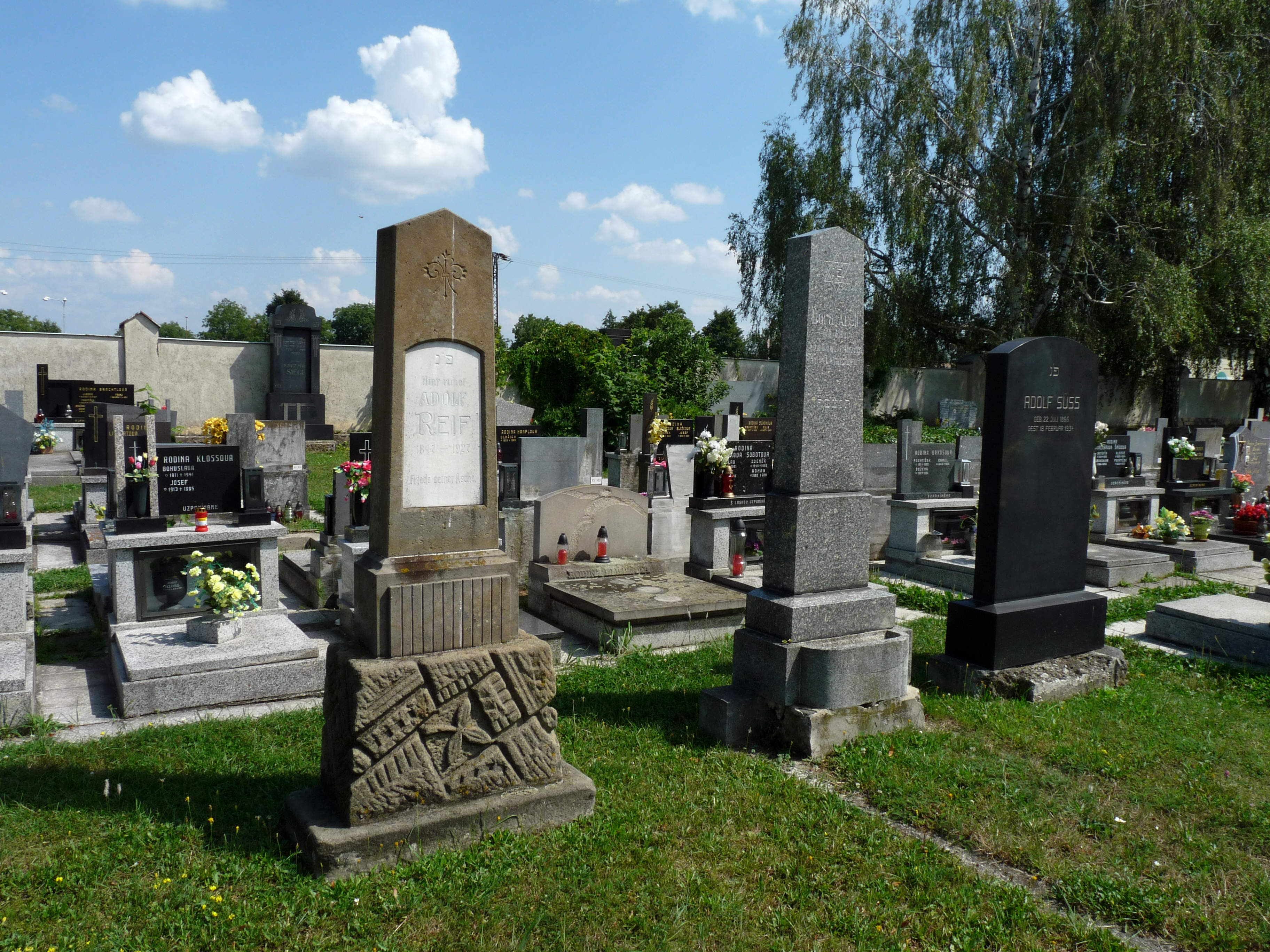 Gravestones in the Jewish cemetery in the town of Mohelnice, Šumperk District, Czech Republic.